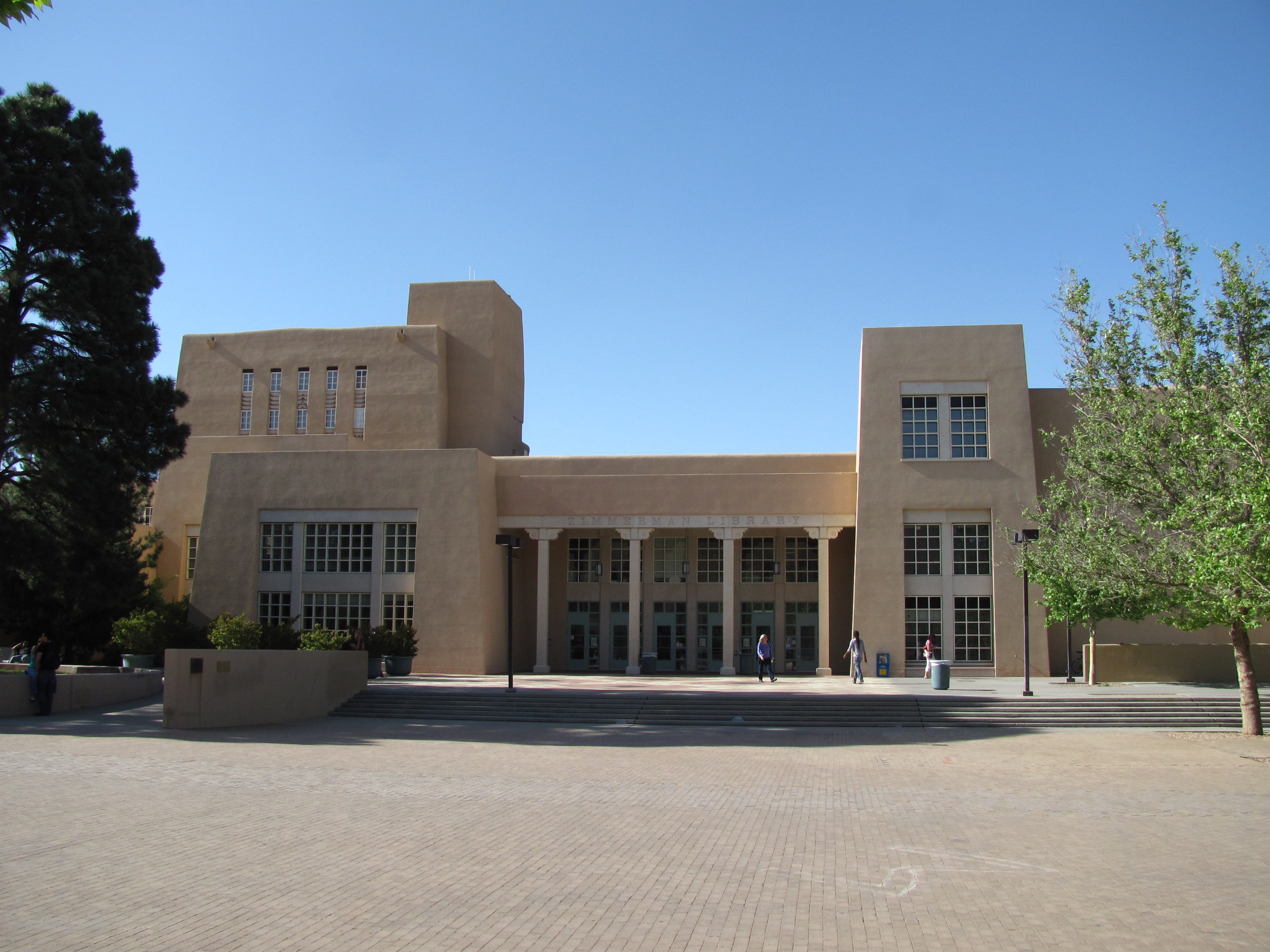 Zimmerman Library, University of New Mexico, Albuquerque New Mexico